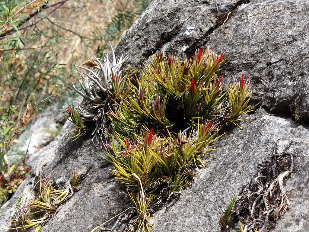 Tillandsia caulescens, in habitat in Peru or Argentina, exact location unknown.